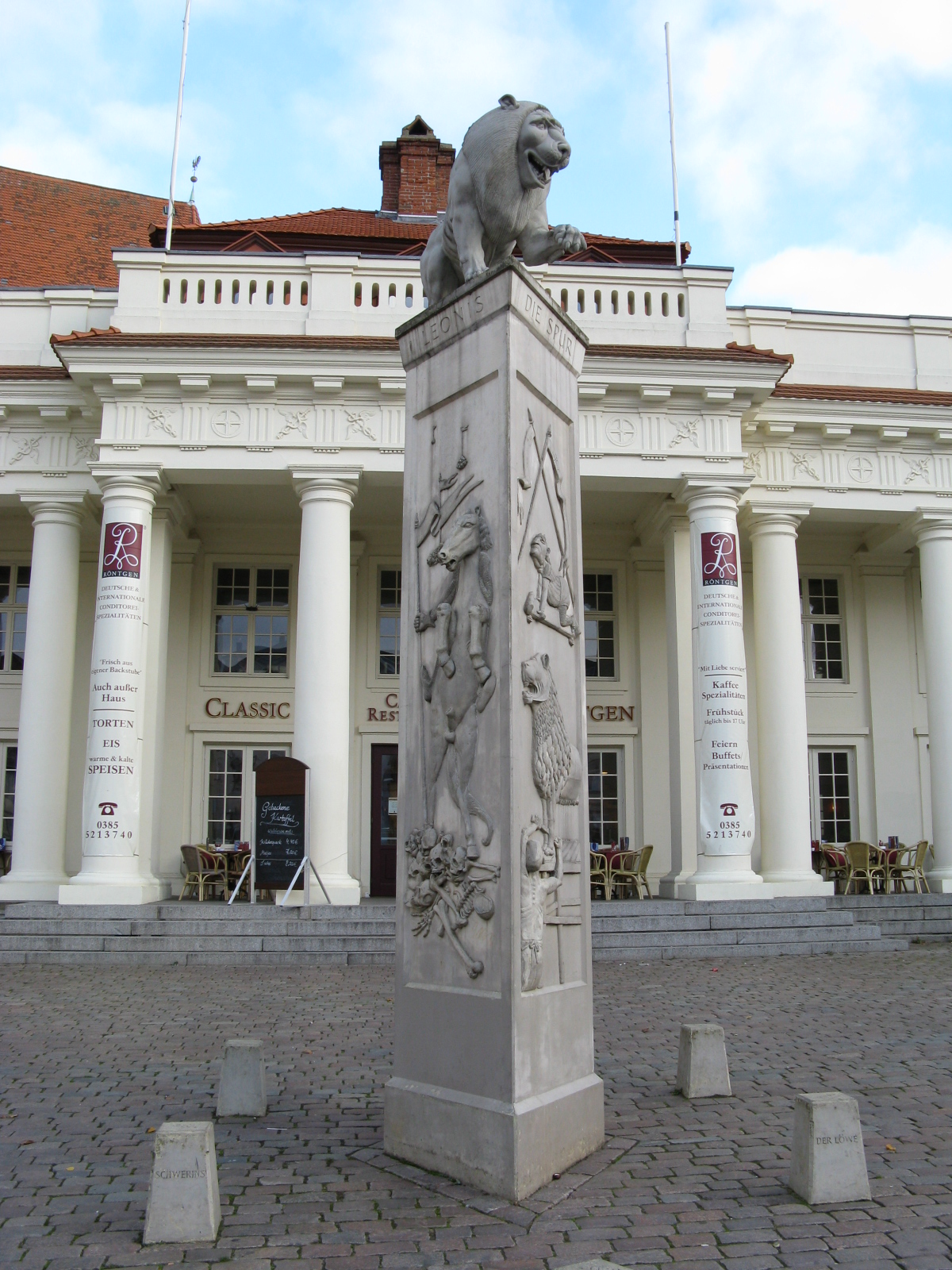 Lion statue on Schwerins market, Germany